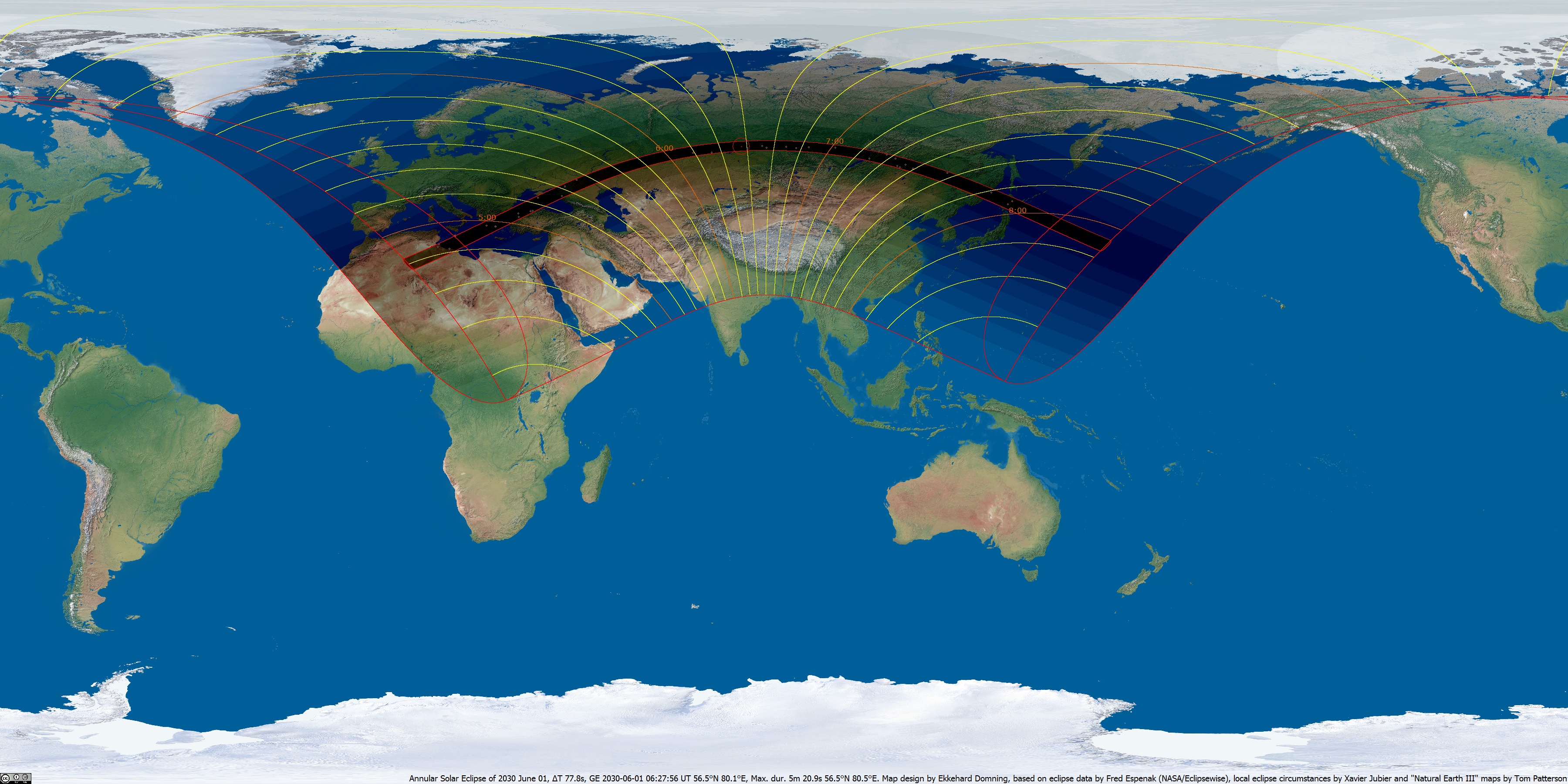 Global map of the Solar eclipse Scale 1° = 10px